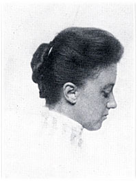 This work is in the public domain in its country of origin and other countries and areas where the copyright term is the author's life plus 70 years or fewer. You must also include a United States public domain tag to indicate why this work is in the public domain in the United States. Note that a few countries have copyright terms longer than 70 years: Mexico has 100 years, Jamaica has 95 years, Colombia has 80 years, and Guatemala and Samoa have 75 years. This image may not be in the public domain in these countries, which moreover do not implement the rule of the shorter term. Côte d'Ivoire has a general copyright term of 99 years and Honduras has 75 years, but they do implement the rule of the shorter term. Copyright may extend on works created by French who died for France in World War II (more information), Russians who served in the Eastern Front of World War II (known as the Great Patriotic War in Russia) and posthumously rehabilitated victims of Soviet repressions (more information). This file has been identified as being free of known restrictions under copyright law, including all related and neighboring rights. This media file is in the public domain in the United States. This applies to U.S. works where the copyright has expired, often because its first publication occurred prior to January 1, 1924, and if not then due to lack of notice or renewal. See this page for further explanation. This image might not be in the public domain outside of the United States; this especially applies in the countries and areas that do not apply the rule of the shorter term for US works, such as Canada, Mainland China (not Hong Kong or Macao), Germany, Mexico, and Switzerland. The creator and year of publication are essential information and must be provided. See Wikipedia:Public domain and Wikipedia:Copyrights for more details.